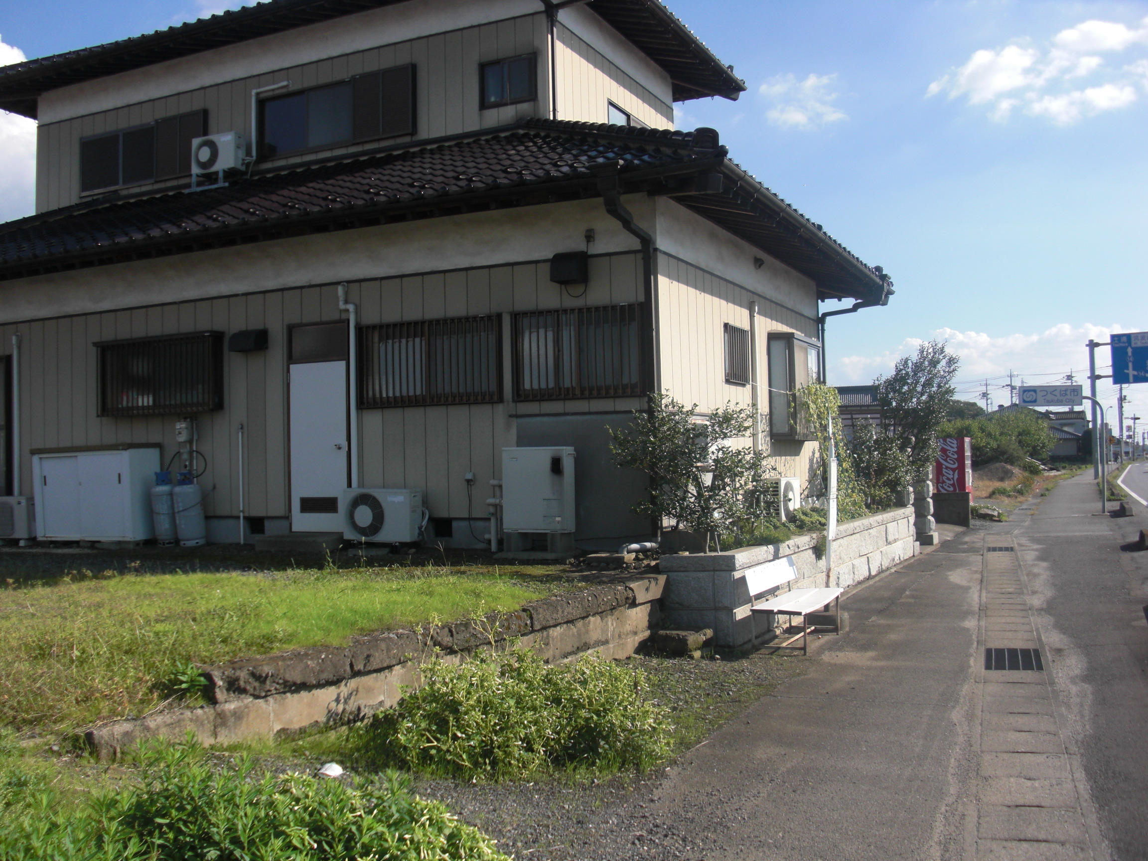 This is a site of Kamioshima station in Japan. This station belonged to Tsukuba railway for 69 years.